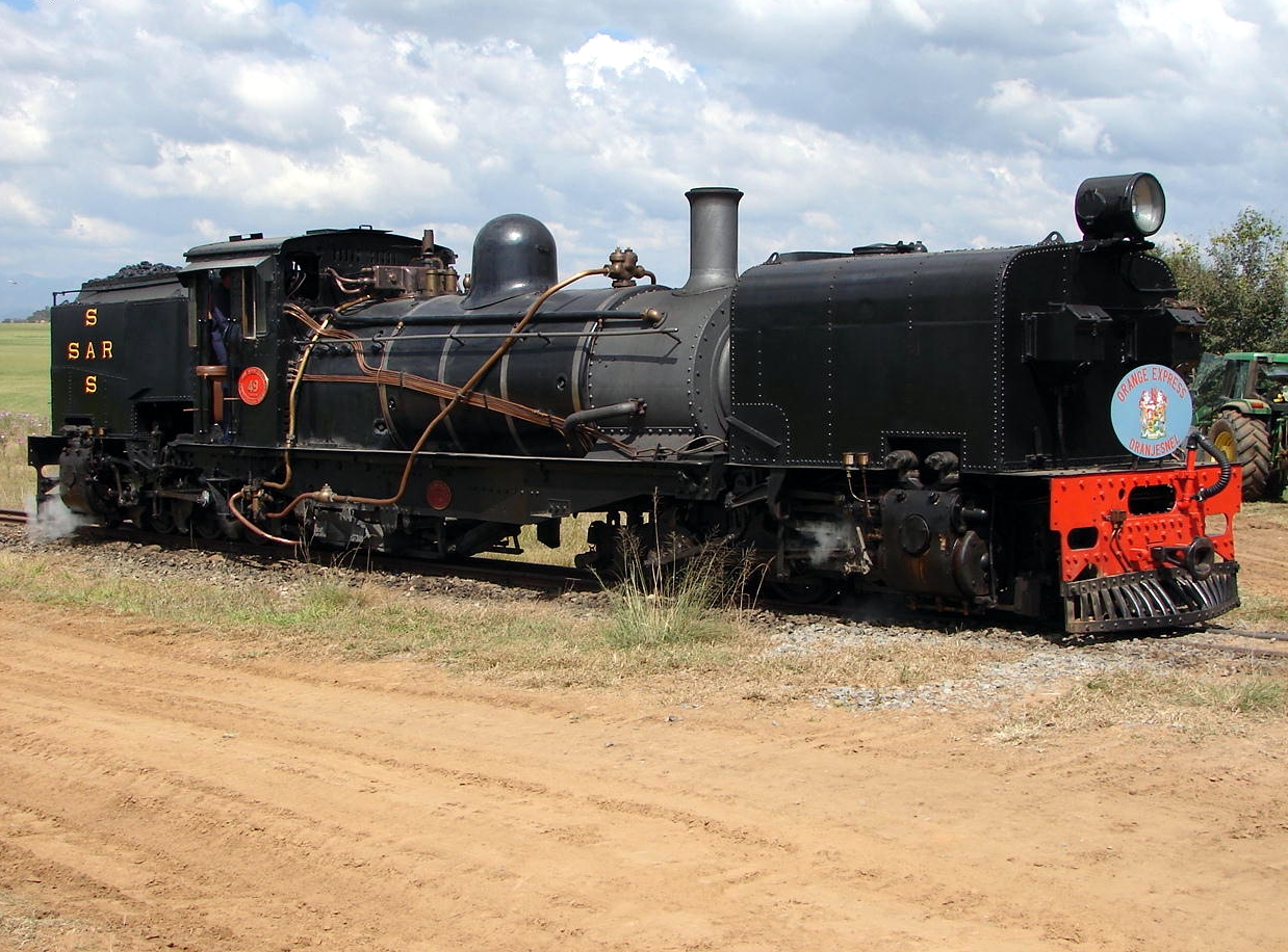 SAR Class NG G13 49 (2-6-2+2-6-2)Builder's No: Hanomag 10599Location: Sandstone Estates, Ficksburg, Free State